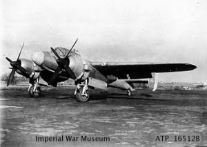 "ATP 16512B" Bristol Brigand B.1 Official photograph Portrait photograph (aircraft) POST WAR BRITISH AIRCRAFT AIR TECHNICAL PUBLICATIONS COLLECTION